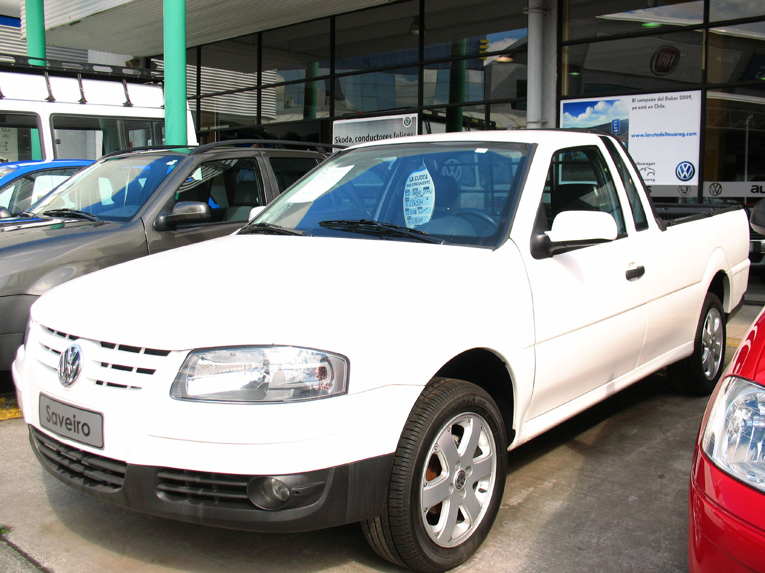 Volkswagen Saveiro Mk4, 2009.